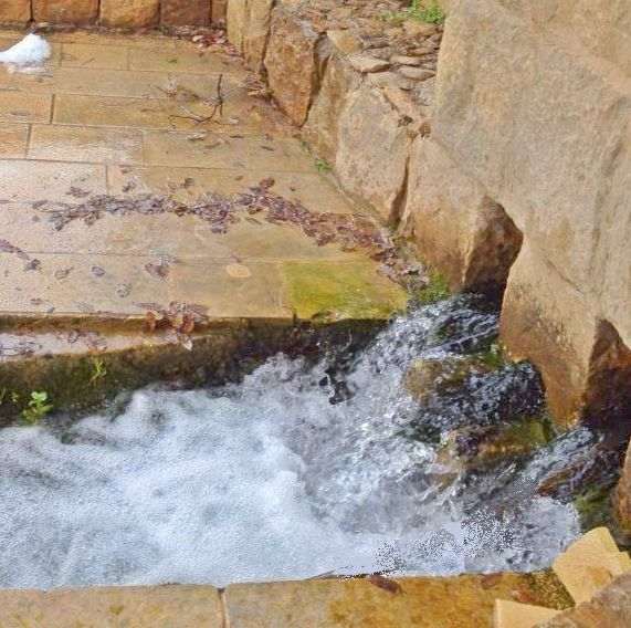 نبع بو سلهب ~ المغيري